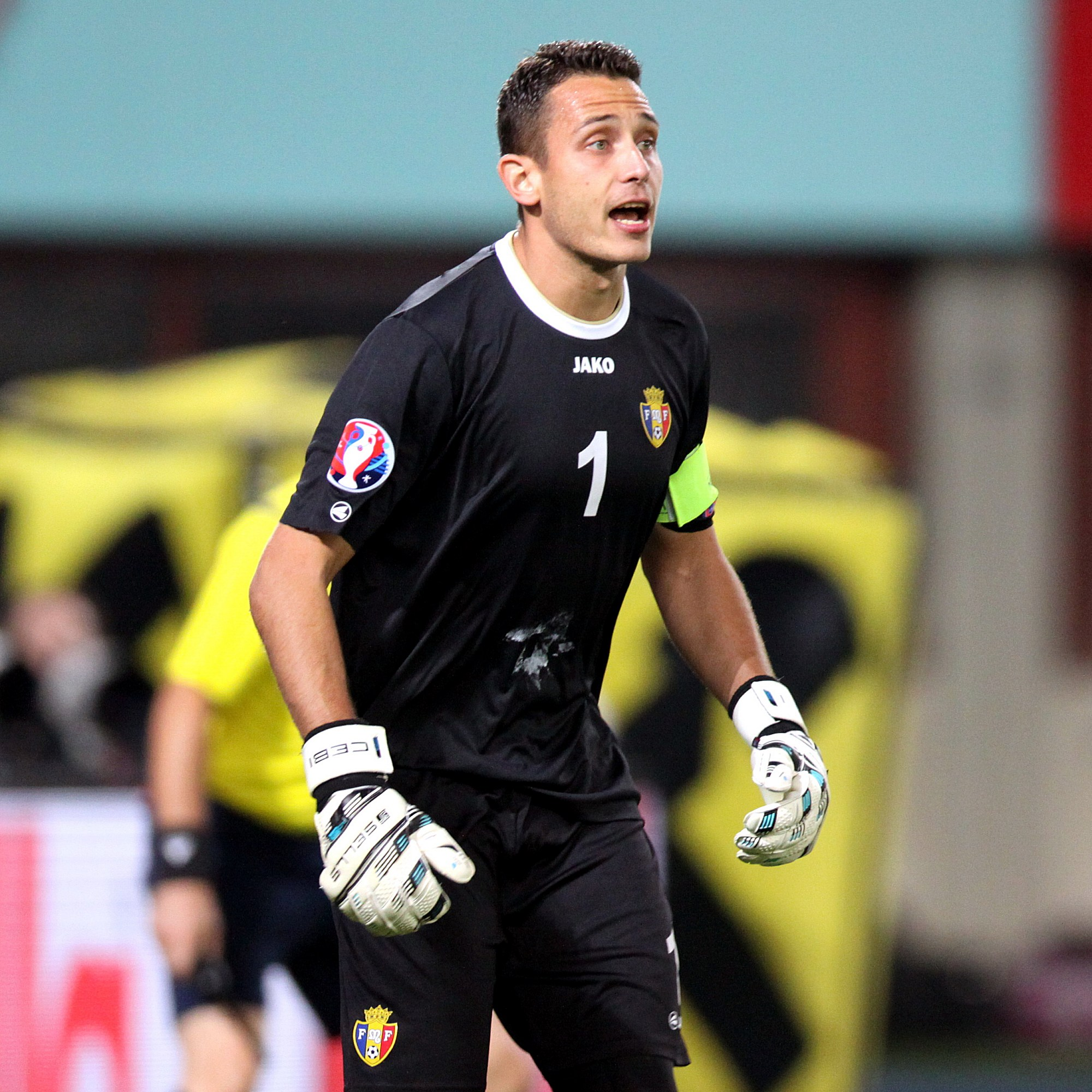 UEFA Euro 2016 qualifying, Group G – Austria national football team (red shirts) vs. Moldova national football team (blue shirts) on 2015-09-05 in Ernst-Happel-Stadion, Vienna: The photo shows Ilie Cebanu